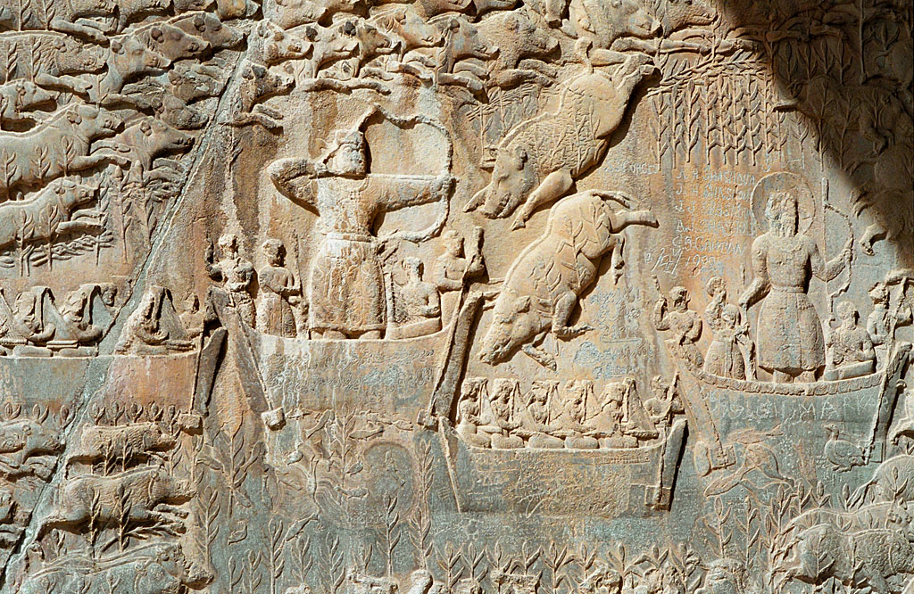 Taq-e Bostan: detail of the low-relief depicting a boar hunt, the king killing a boar